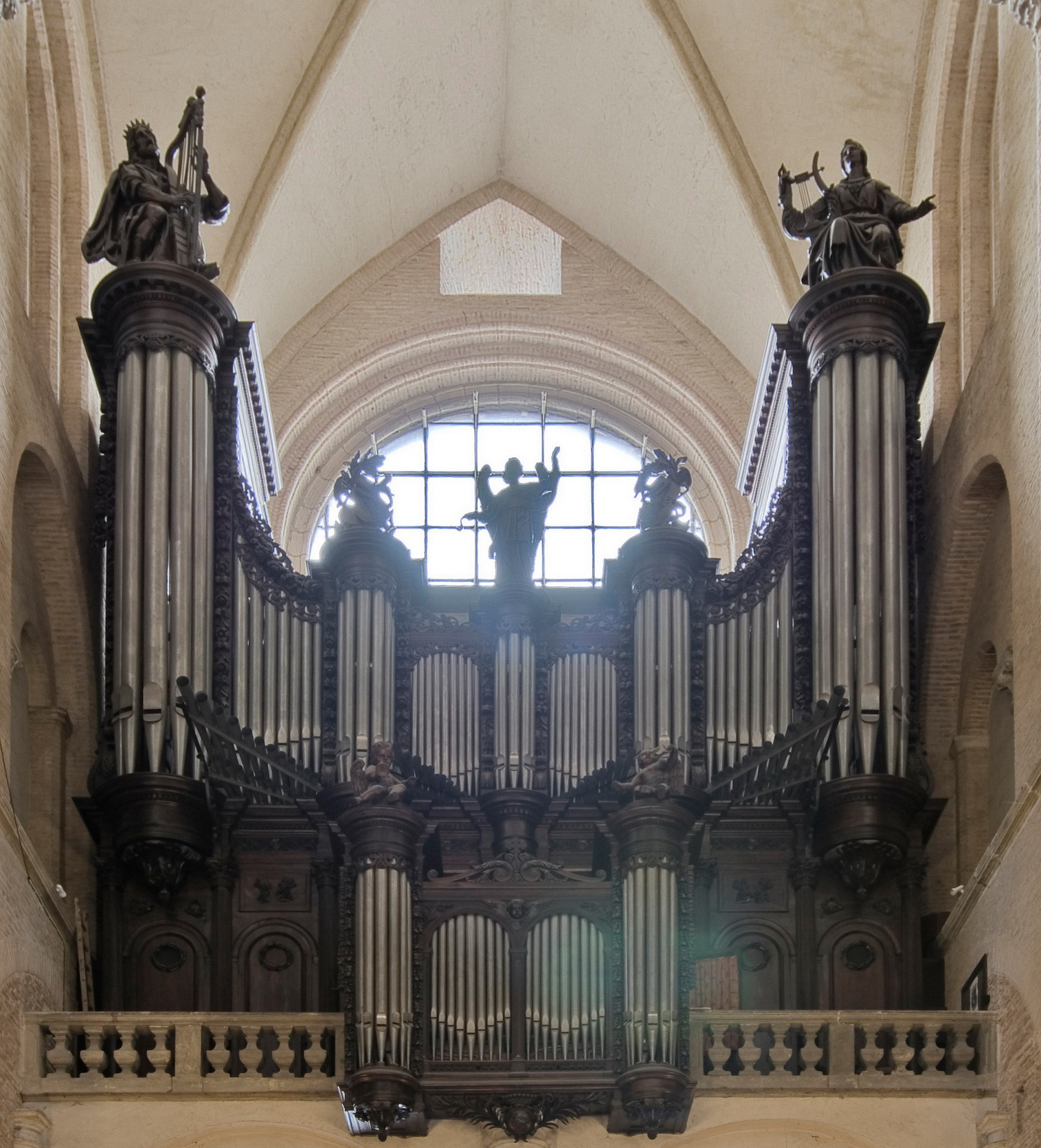 Organs of Basilique Saint-Sernin (Toulouse, France)